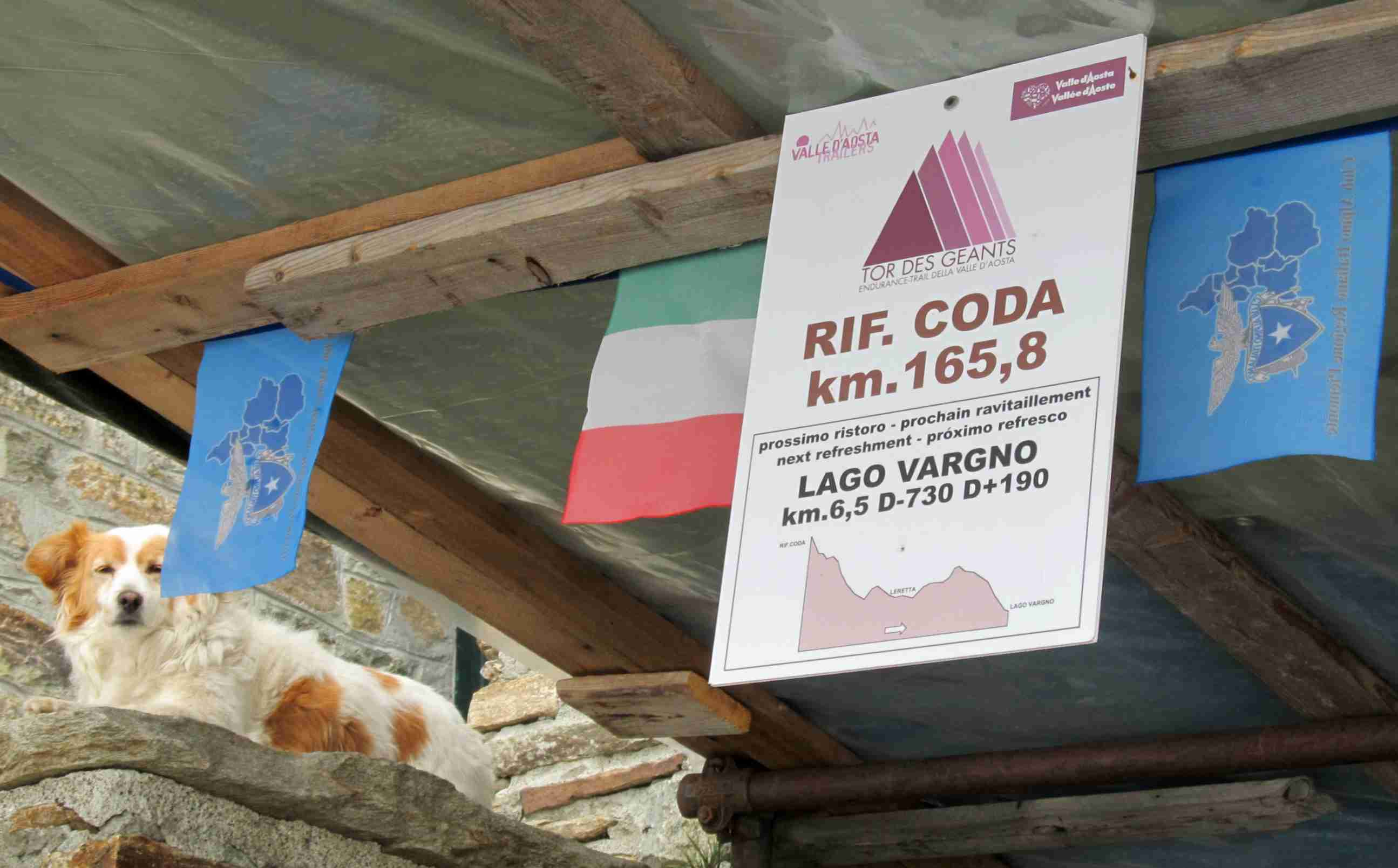 Delfo e Agostino Coda mountain hut: Tor des Geants race signs